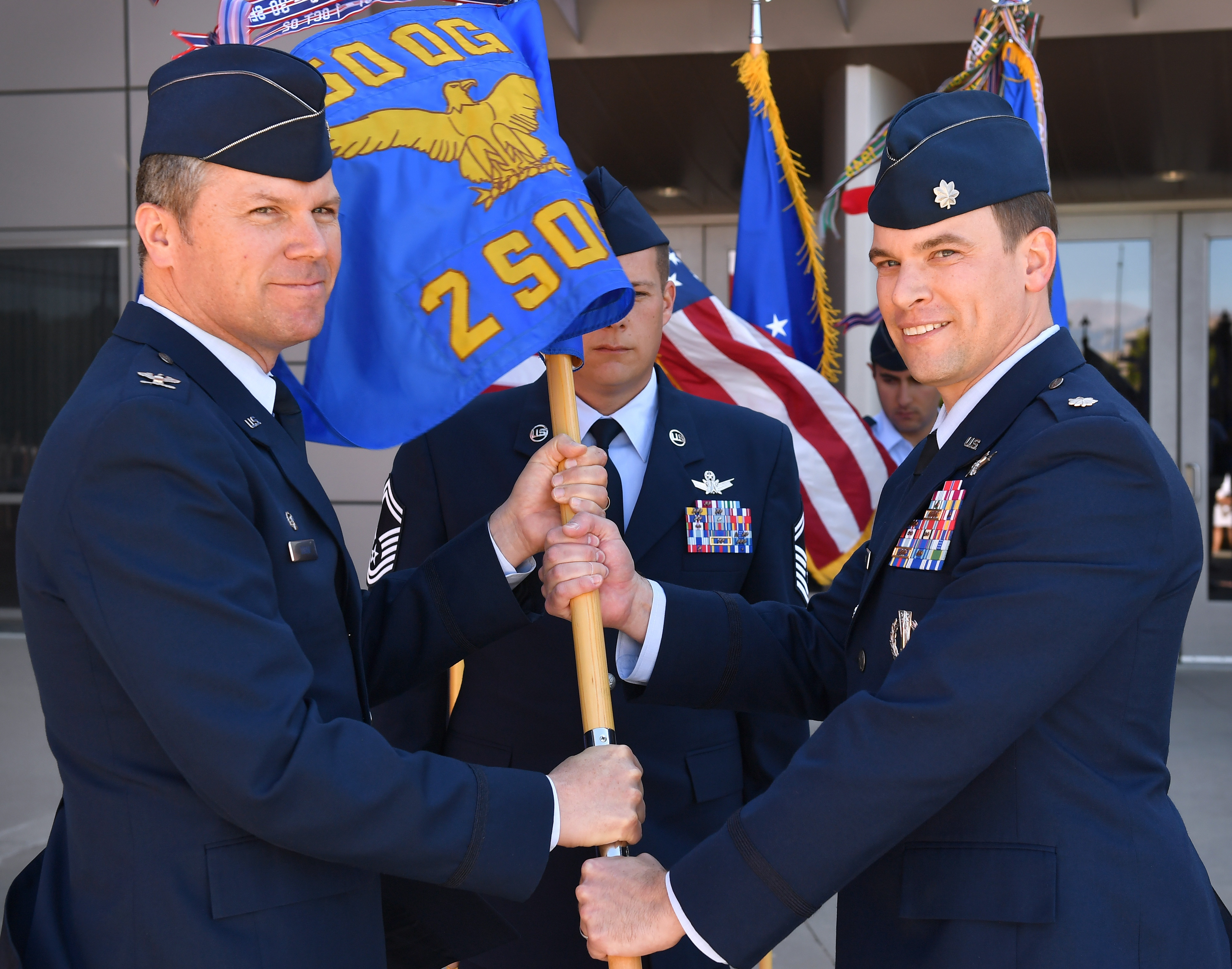 Col Toby Doran, Commander, 50th Operations Group, passes the guidon to Lt Col Stephen Toth, Commander, 2d Space Operations Squadron, symbolizing the official transfer of command from the previous commander to the new one. Schriever Air Force Base, Colorado.